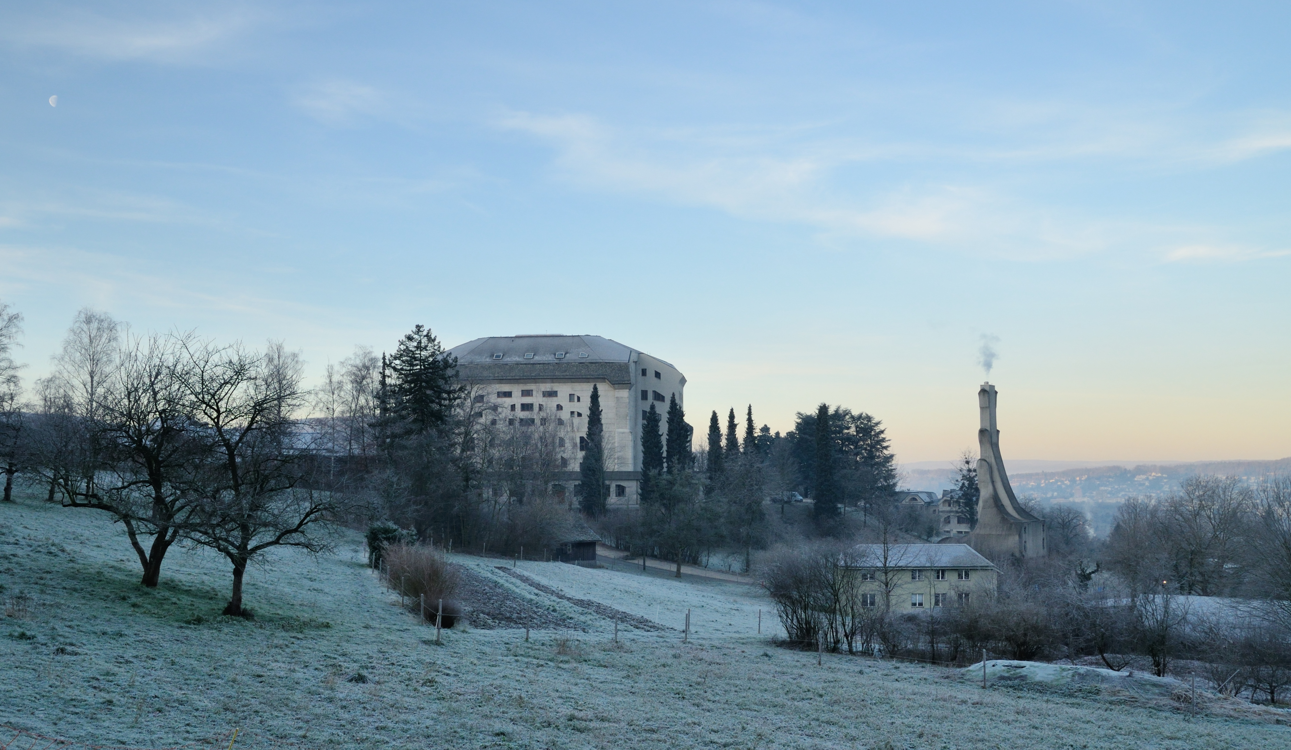 Goetheanum from east